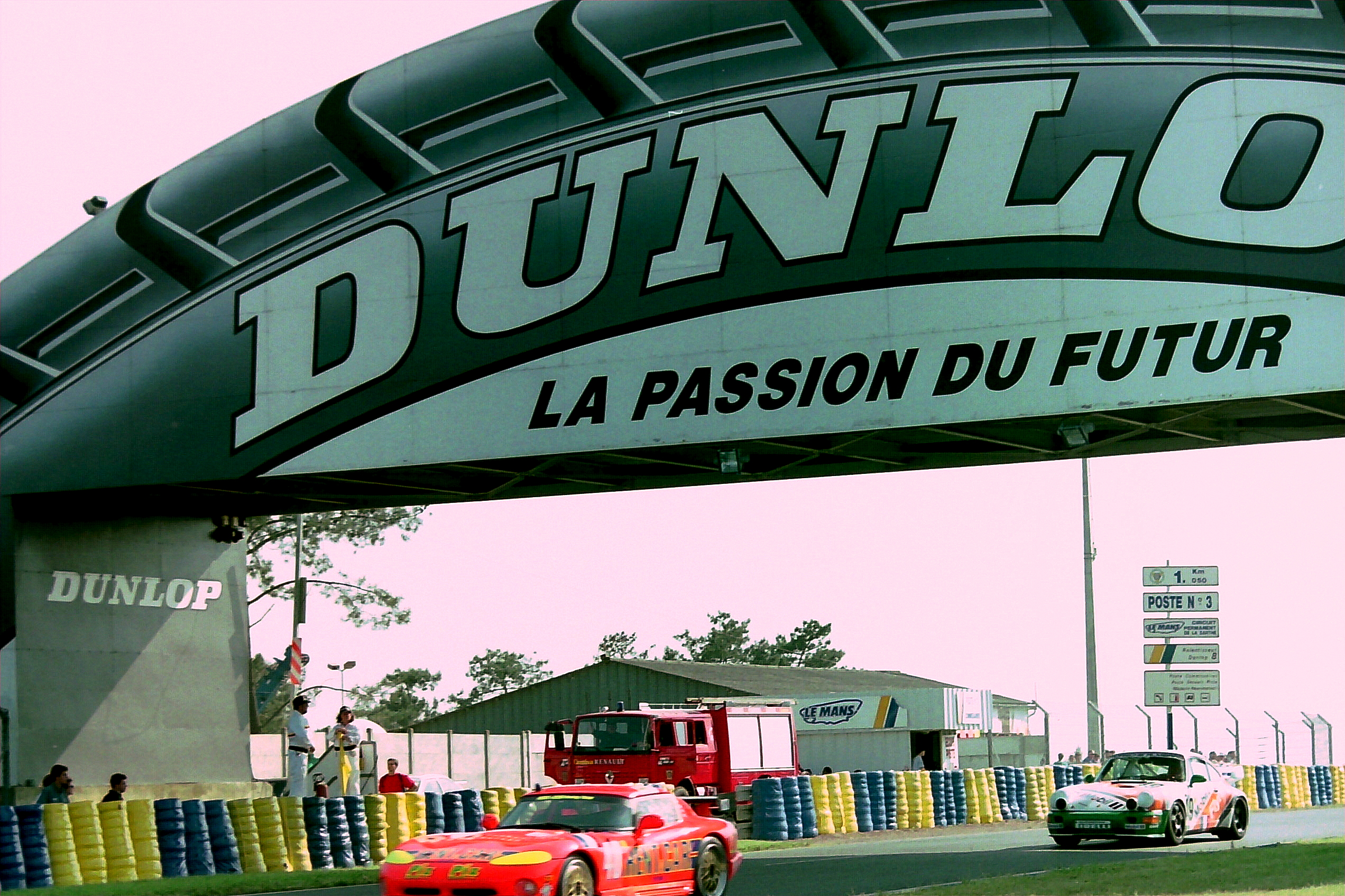 Dodge Viper RT10 - Rene Arnoux, Justin Bell & Bertrand Balas and Porsche 911 Carrera RSR - Laffite, Almeras & Almeras head under the Dunlop Bridge at the 1994 Le Mans